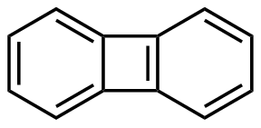 ChemDraw image of Diphenylene